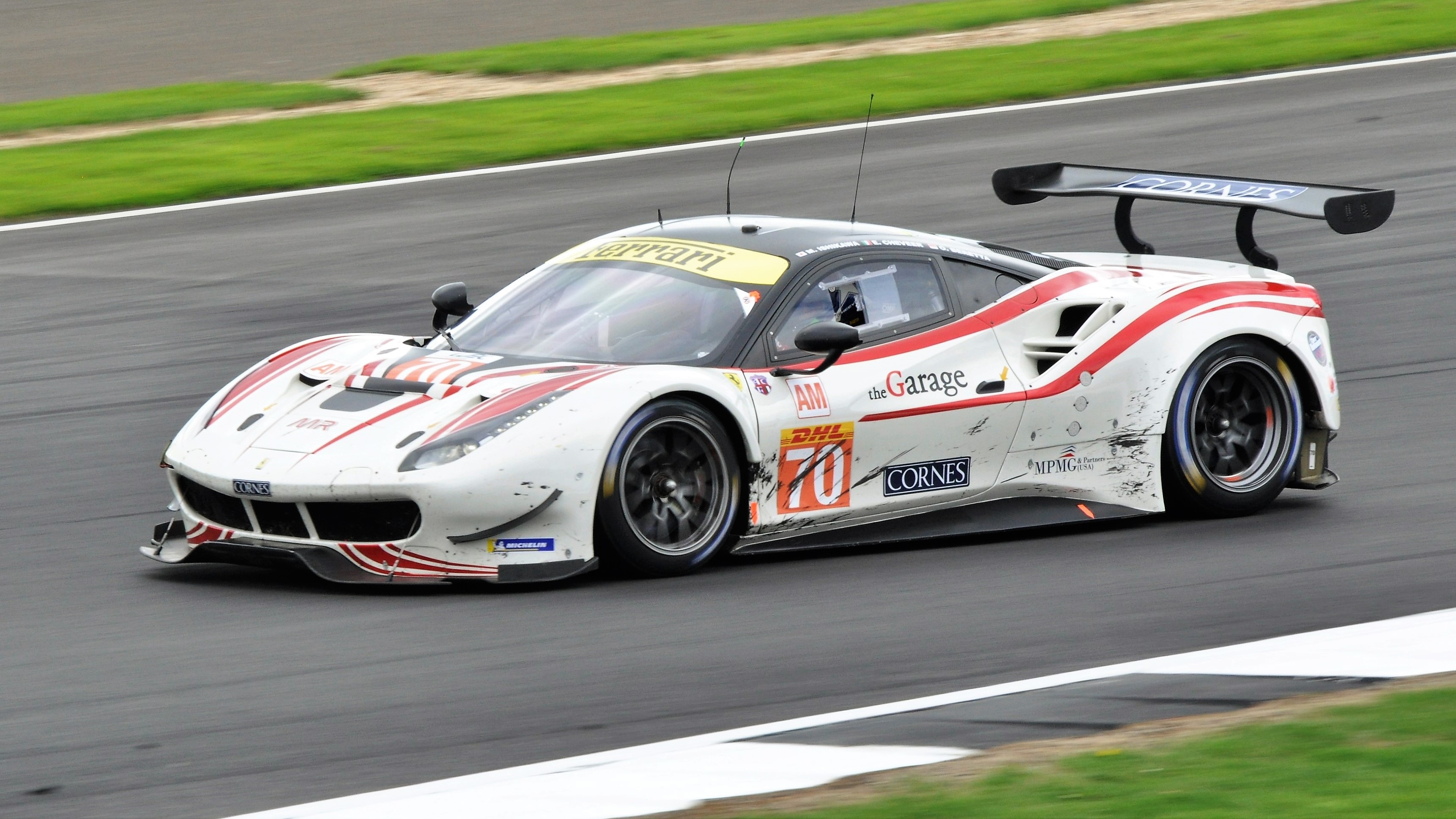 Italian driver Eddie Cheever III lines up the number 70 MR Racing-entered Ferrari 488 GTE car for Village corner during the 2018 6 Hours of Silverstone race.